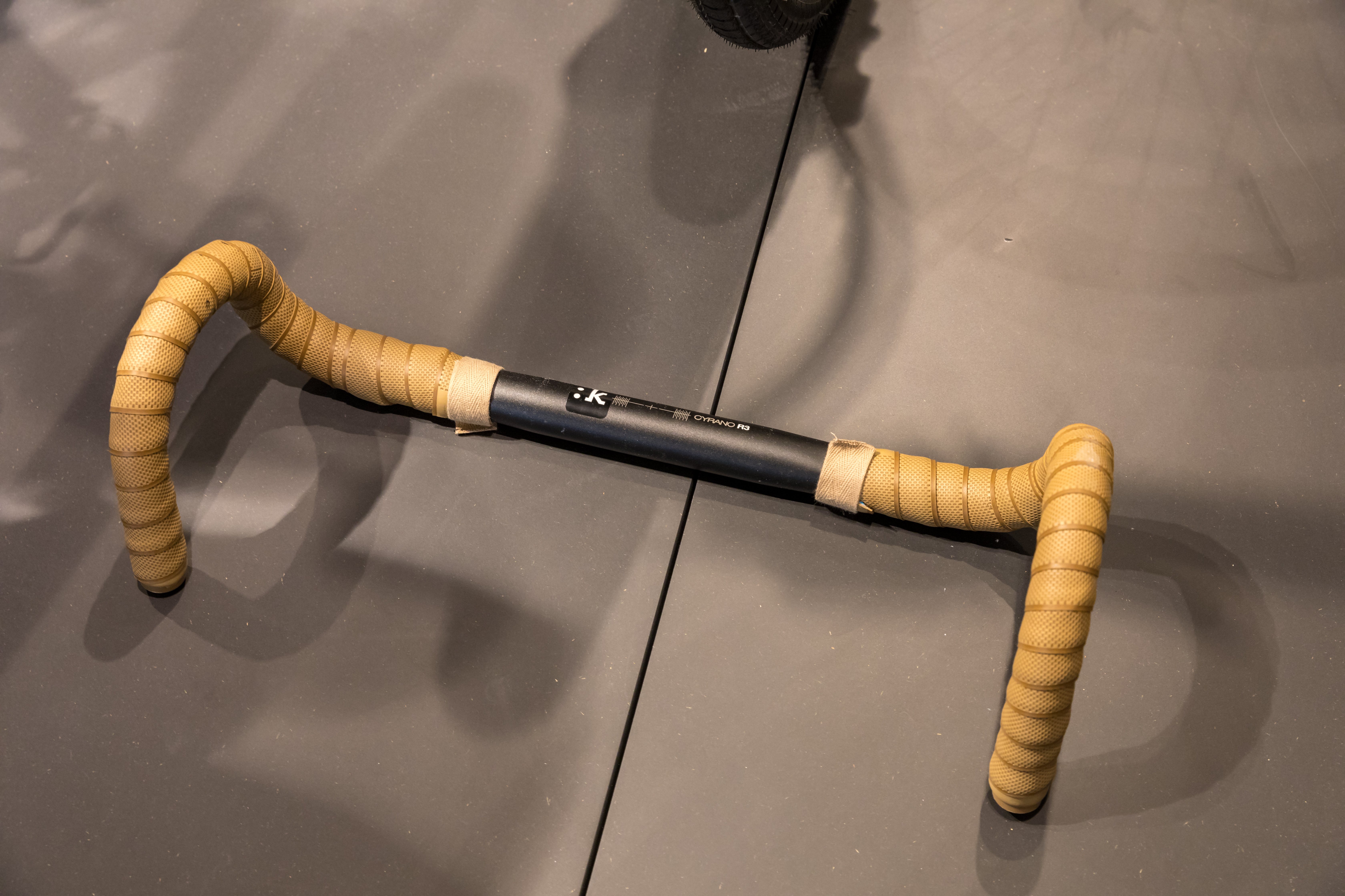 OutDoor 2018